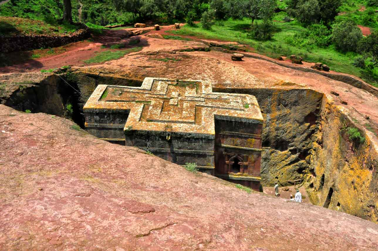 This photo captures the whole idea of a rock hewn Church.